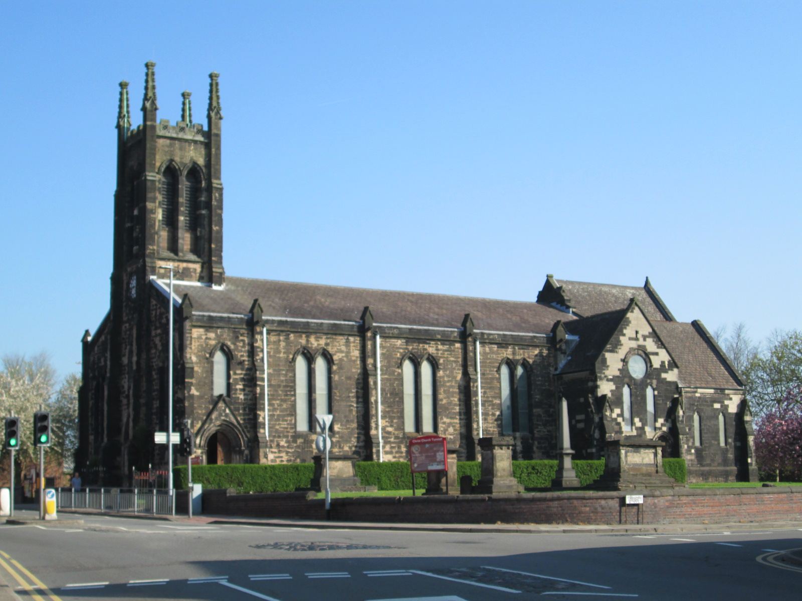 Christ Church, in Tunstall, Stoke-on-Trent, seen from the south.